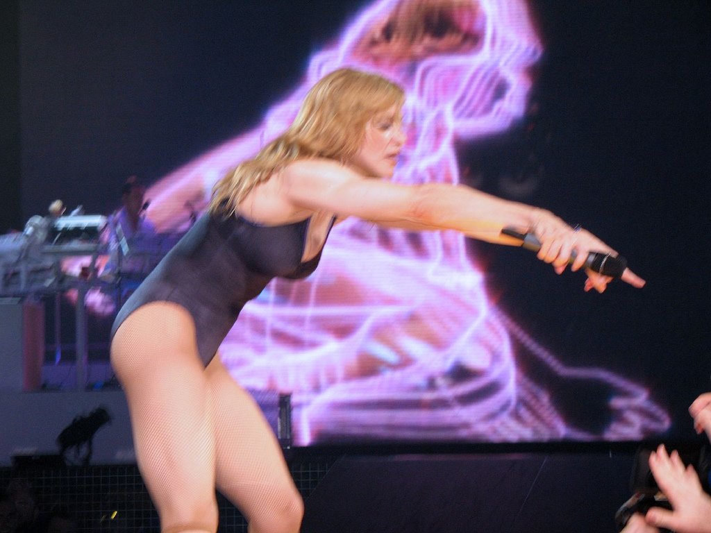 Hung Up at Confessions Tour